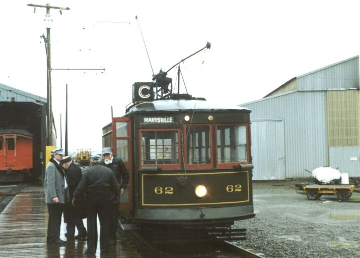 Sacramento Northern Birney Car No 62 at the Western Railway Museum, Rio Vista, CA. Photo by Nick Kibre (me)